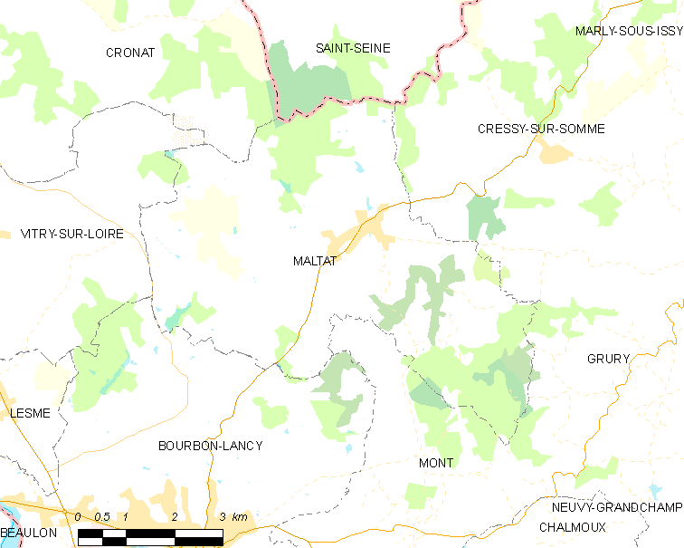 Map of French municipality